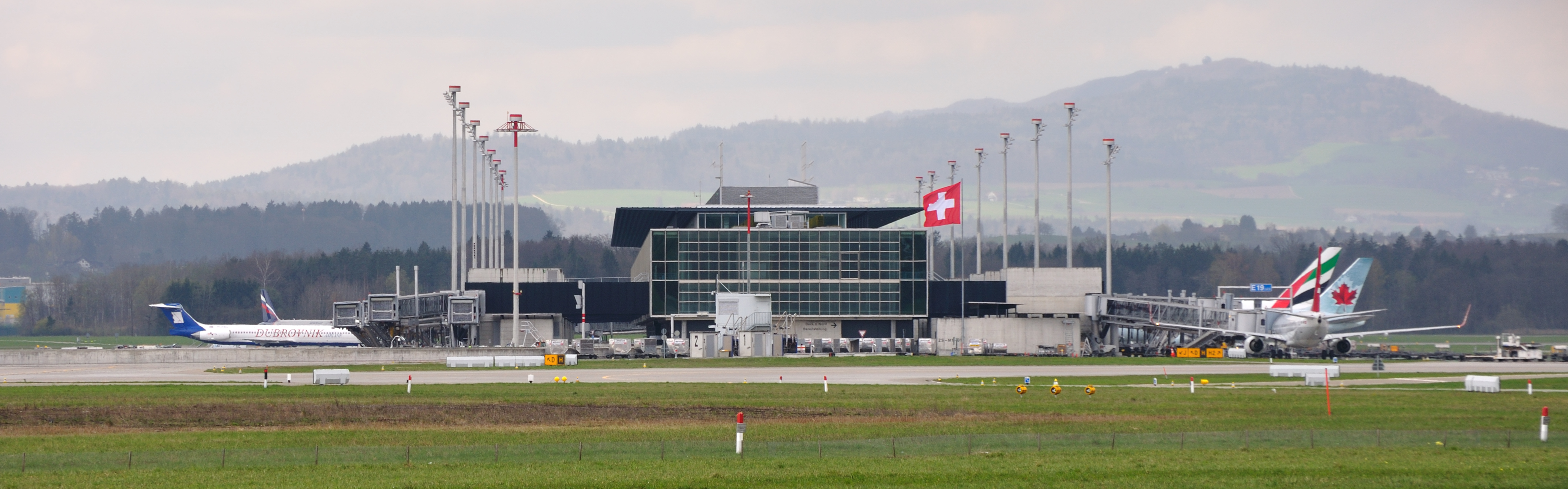 Switzerland, Canton of Zürich, Zurich International Airport